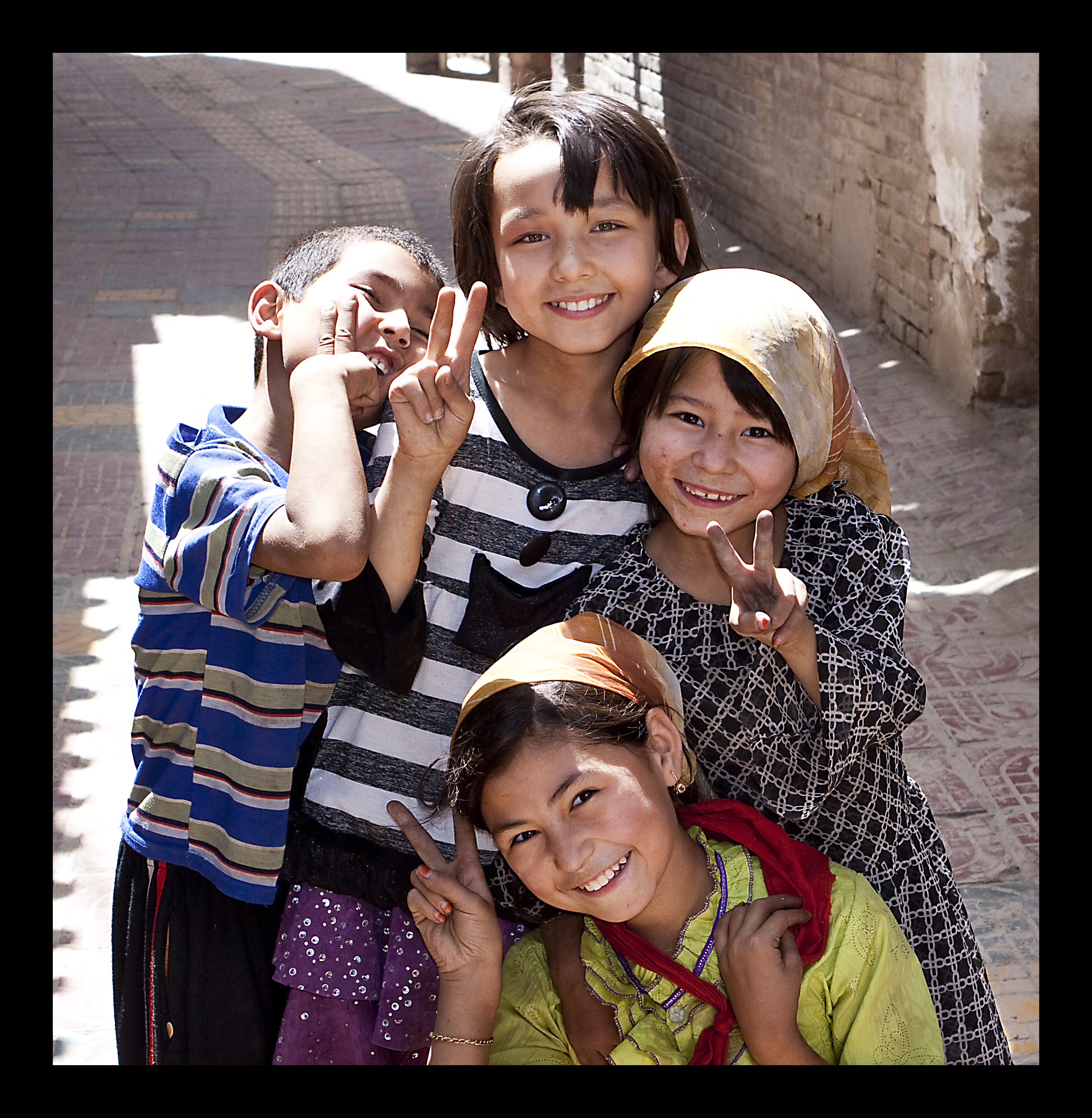 Uyghur Kids in the old town of Hotan, Xinjiang.